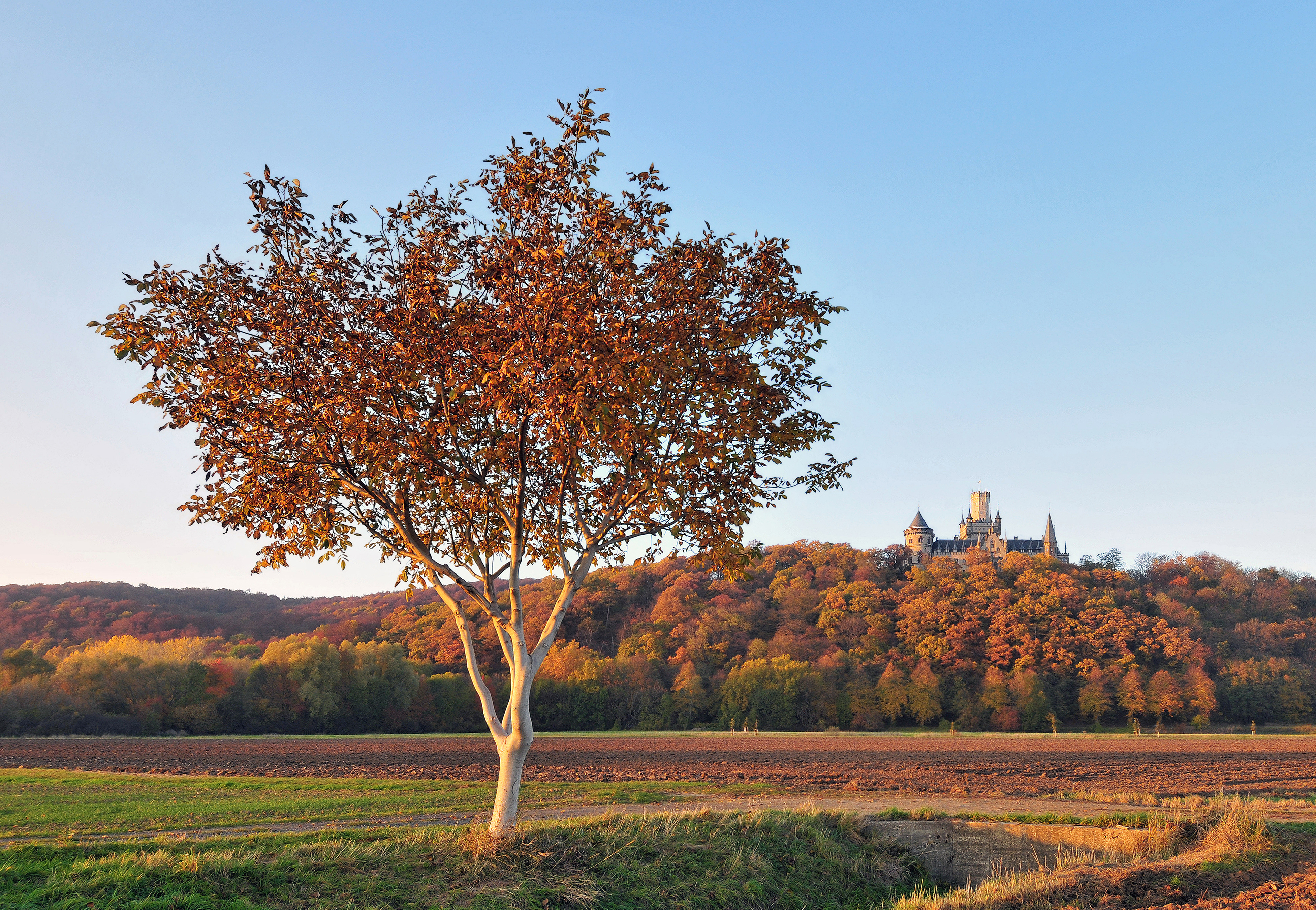 Mountain Marienberg and the Marienburg Castle in autumn. Marienburg Castle is a famous German castle in the Region Hanover, Lower Saxony, Germany, built by Marie of Saxe-Altenburg, Queen of Hanover. The castle mustn't be confused with the Marienburg near Hildesheim. The October is in Germany a sunny and colorful time with autumn leaf color, therefore Germans name the October "Goldener Oktober" (golden October). The image is made on 31. October. This is in Germany mostly the last day with Autumn leaf color. On this day the colouring is already brownish before the leaves fall.